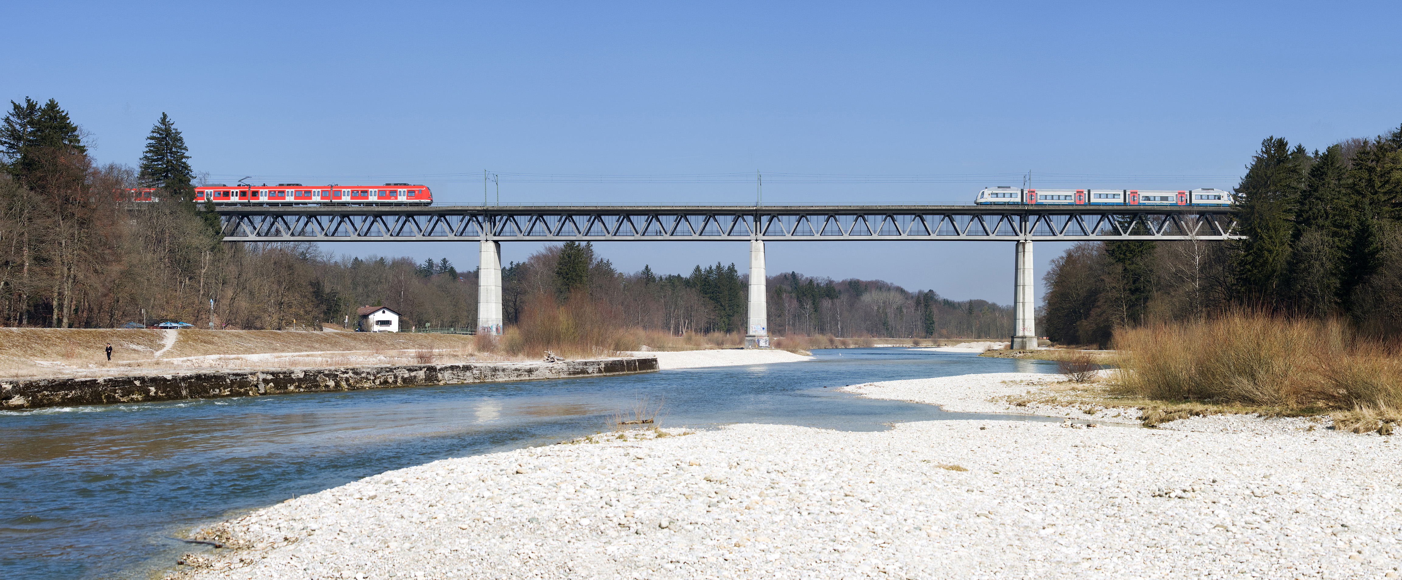 Großhesseloher Brücke in Munich, Germany.